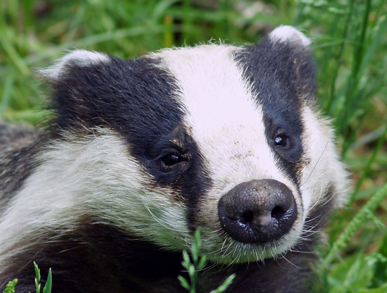 European badger (Meles meles) in Ähtäri Zoo.